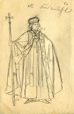 Drawing of Abbot Kuno von Stoffeln